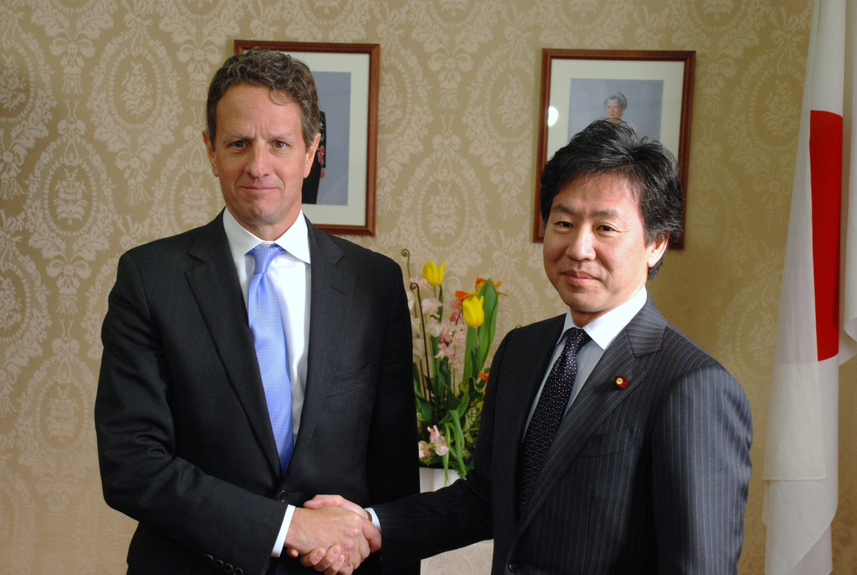 On January 12, 2012, Treasury Secretary Tim Geithner met with Japanese Finance Minister Jun Azumi at the Ministry of Finance in Tokyo, Japan.